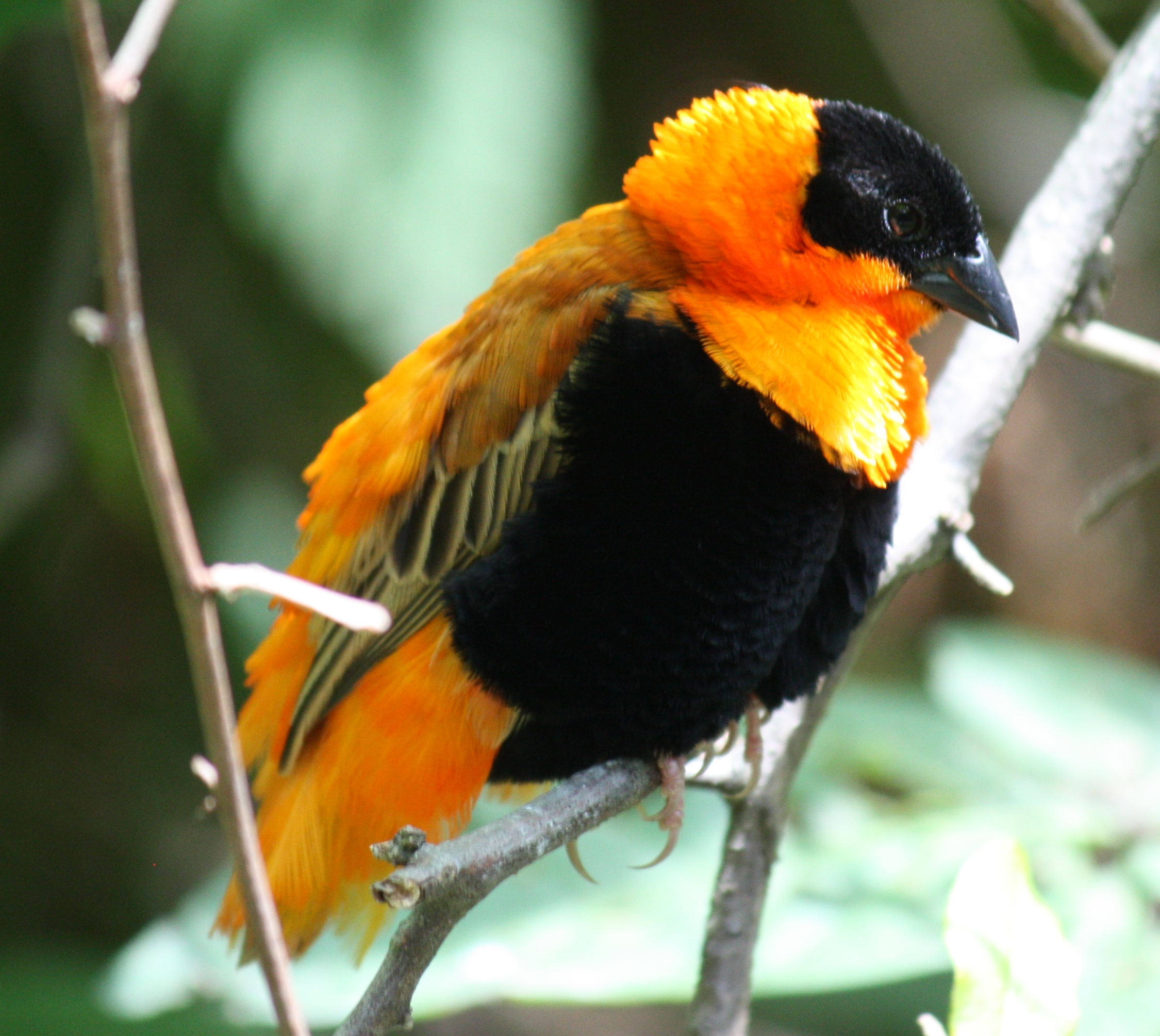 Orange Bishop Euplectes franciscanus at Binder Park Zoo in Battle Creek, Michigan.